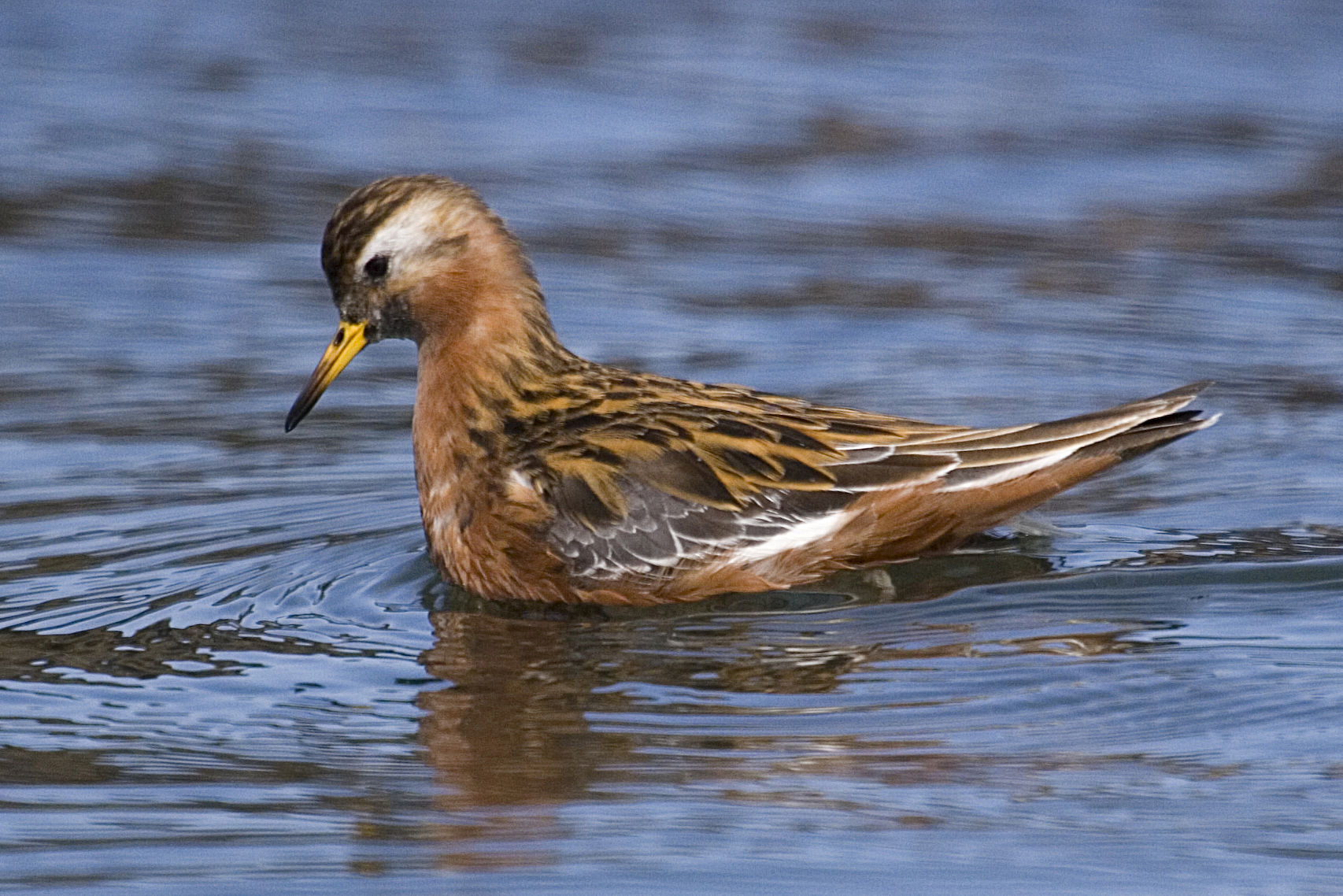 Red Phalarope Phalaropus fulicaria, Morro Bay Estuary near the harbor entrance, Morro Bay, CA 18may2007 - Canon 20D 100-400mm IS handheld from a kayak - photo by Mike Baird